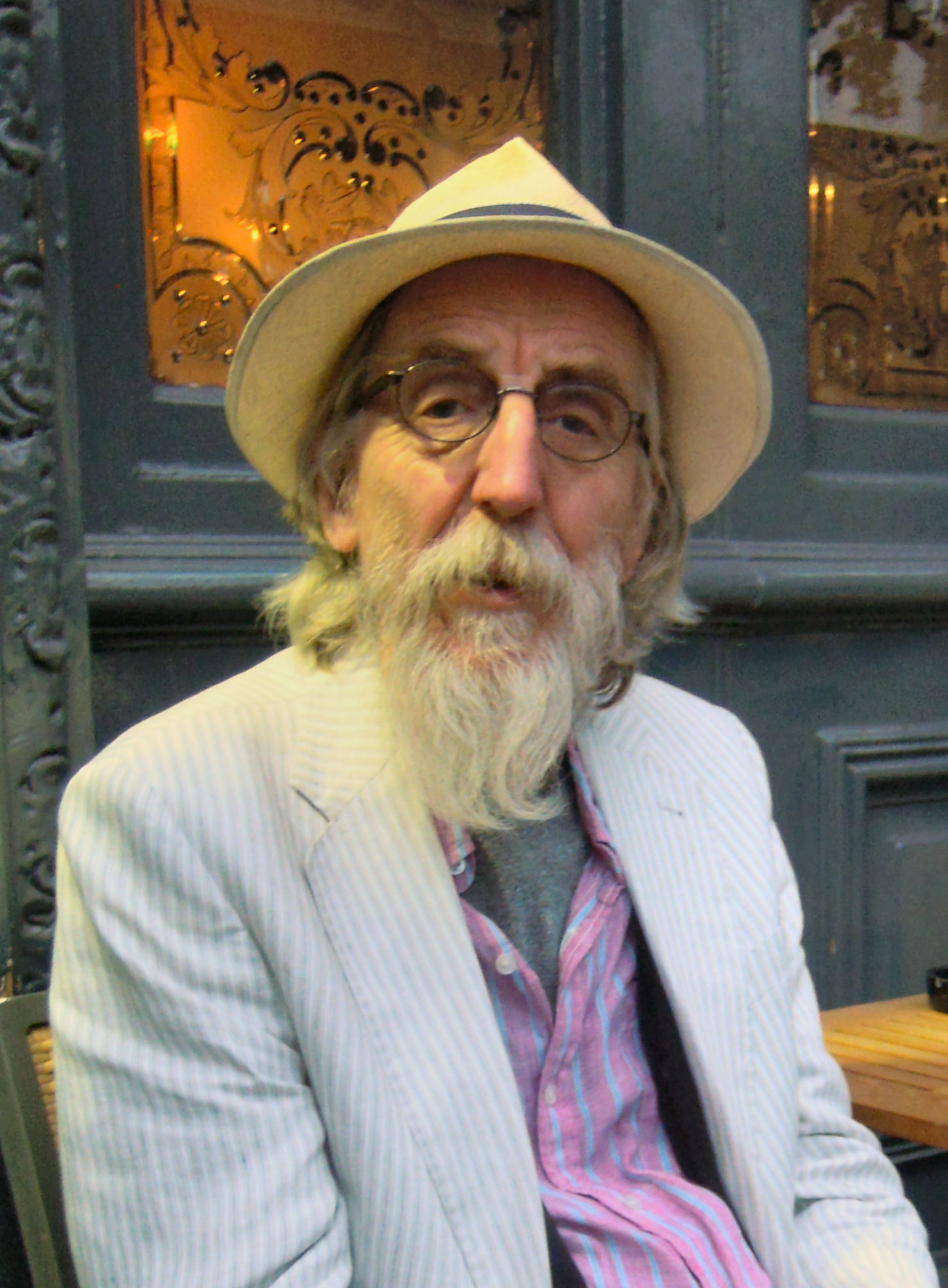 The actor and writer Bob Goody enjoying a pint outside the Museum Tavern in Bloomsbury